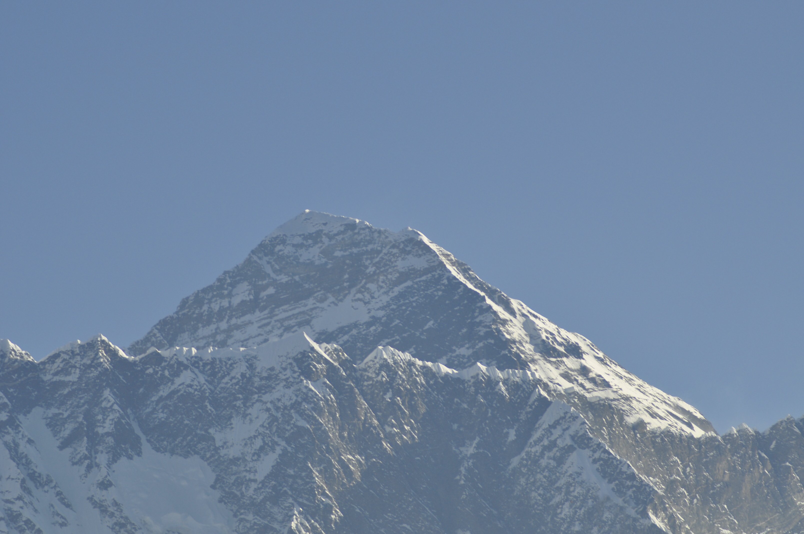 Mt Everest